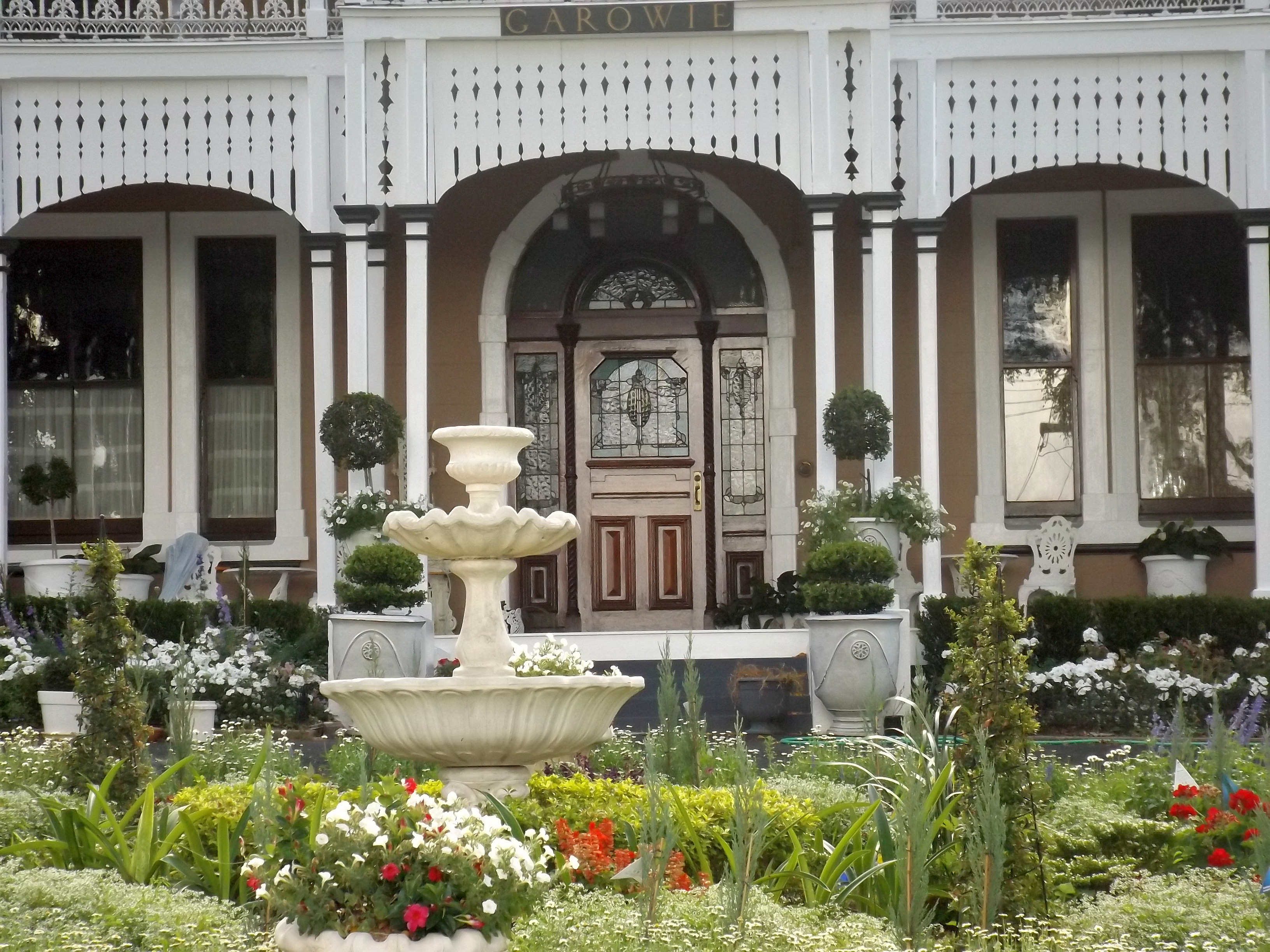 Photo of the front entrance to the Garowie residence in Eastern Heights, Ipswich City, Queensland, Australia.